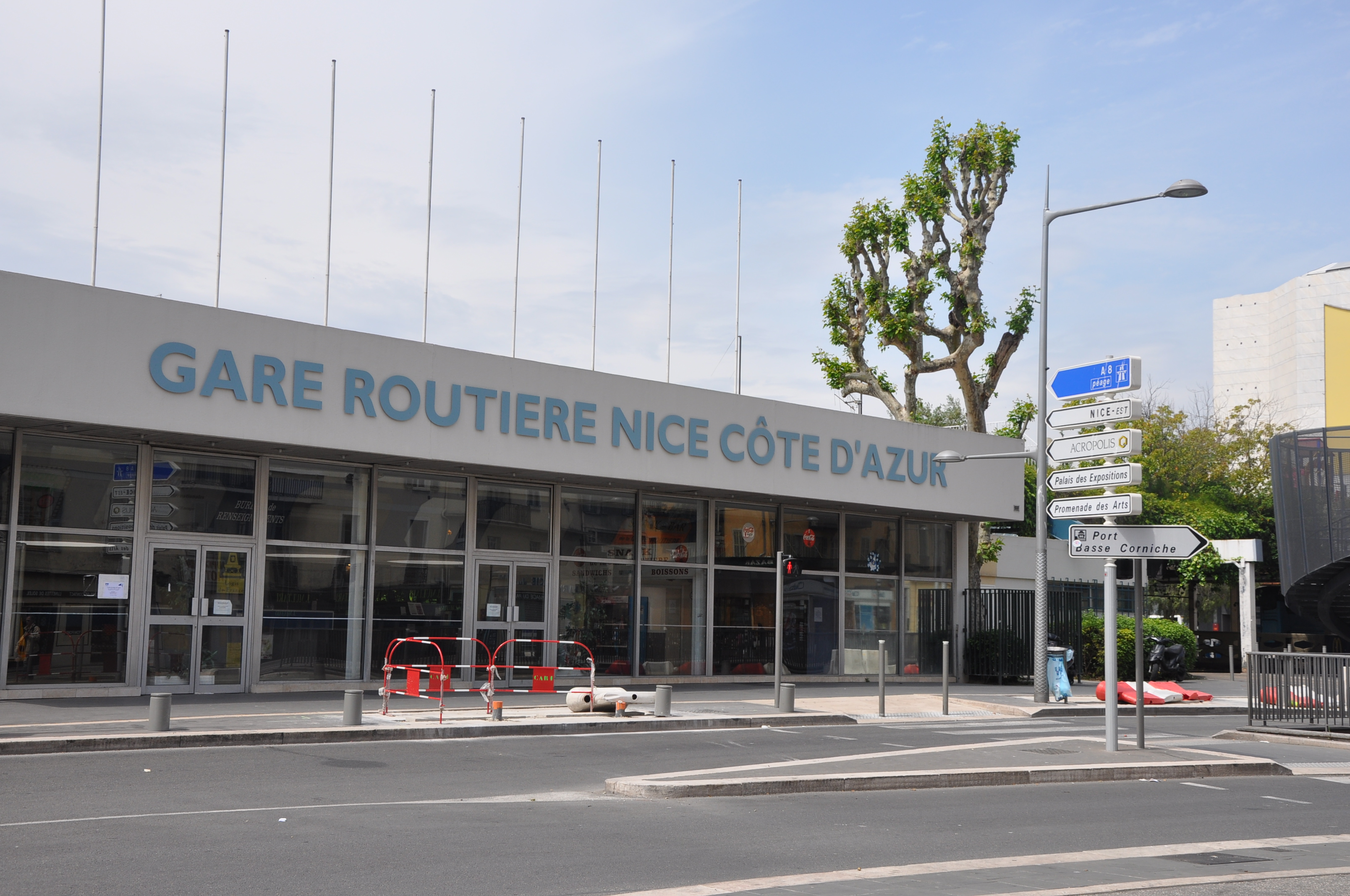 Front of former gare routière Nice Côte d'Azur (central bus station of Nice) in Nice, France.